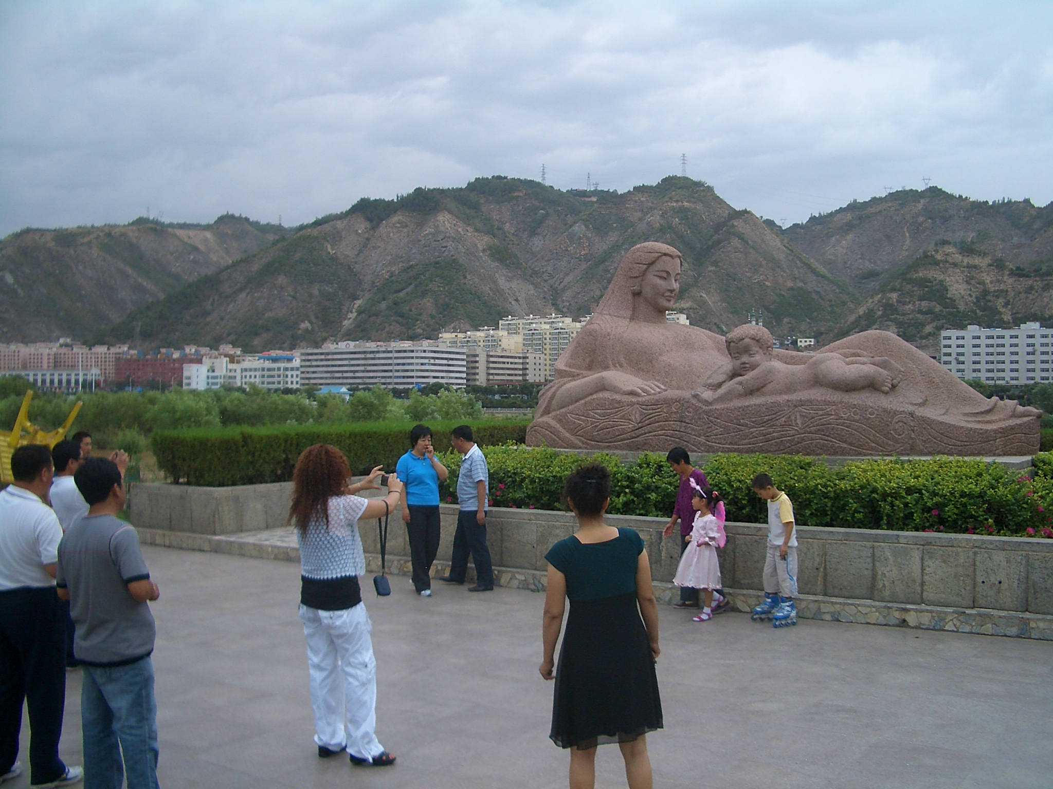 The Mother Yellow River statue in Lanzhou's waterfront Xihu park (Qilhe District)